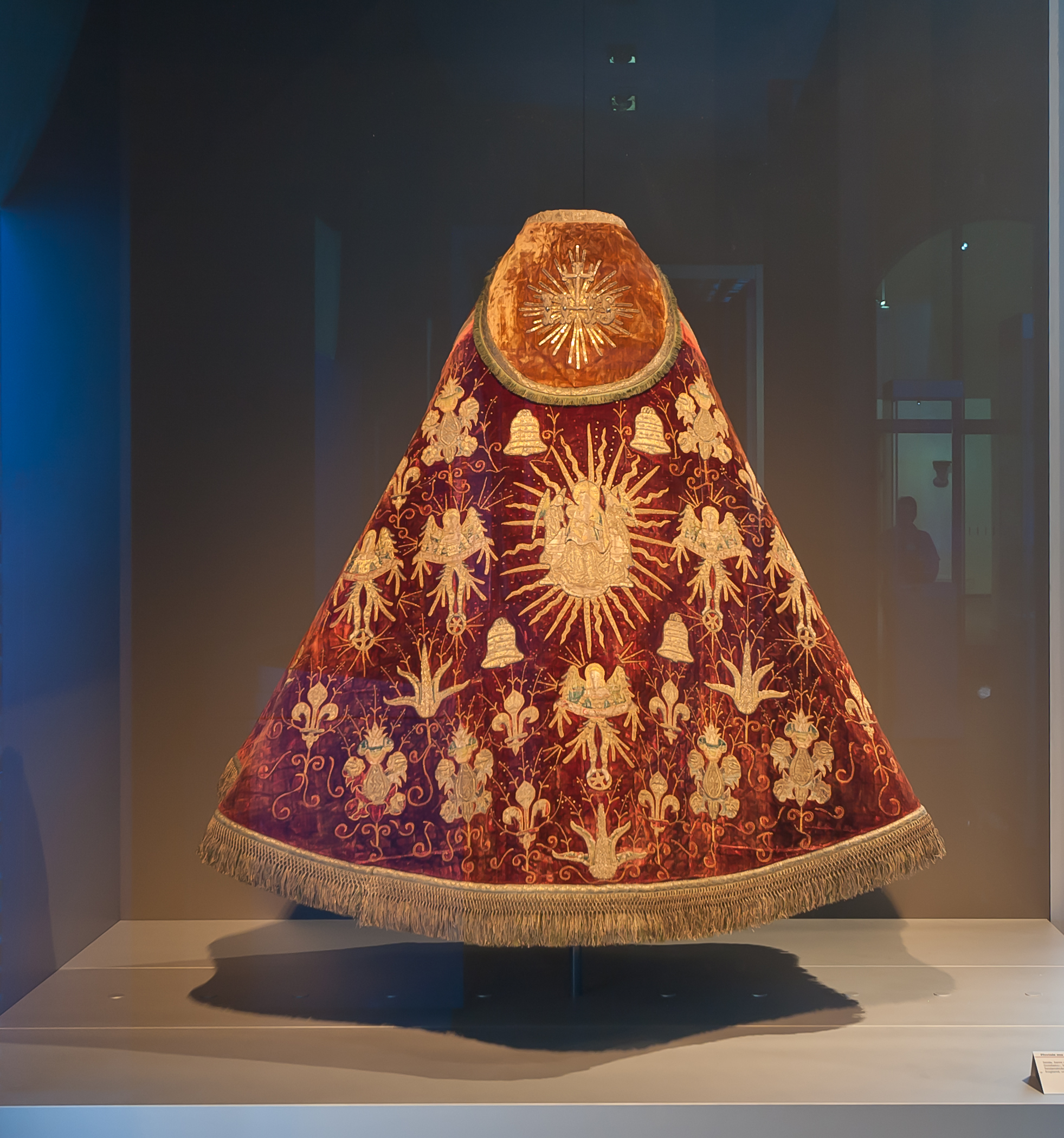 A red-golden chasuble in Museum Schnütgen, Cologne